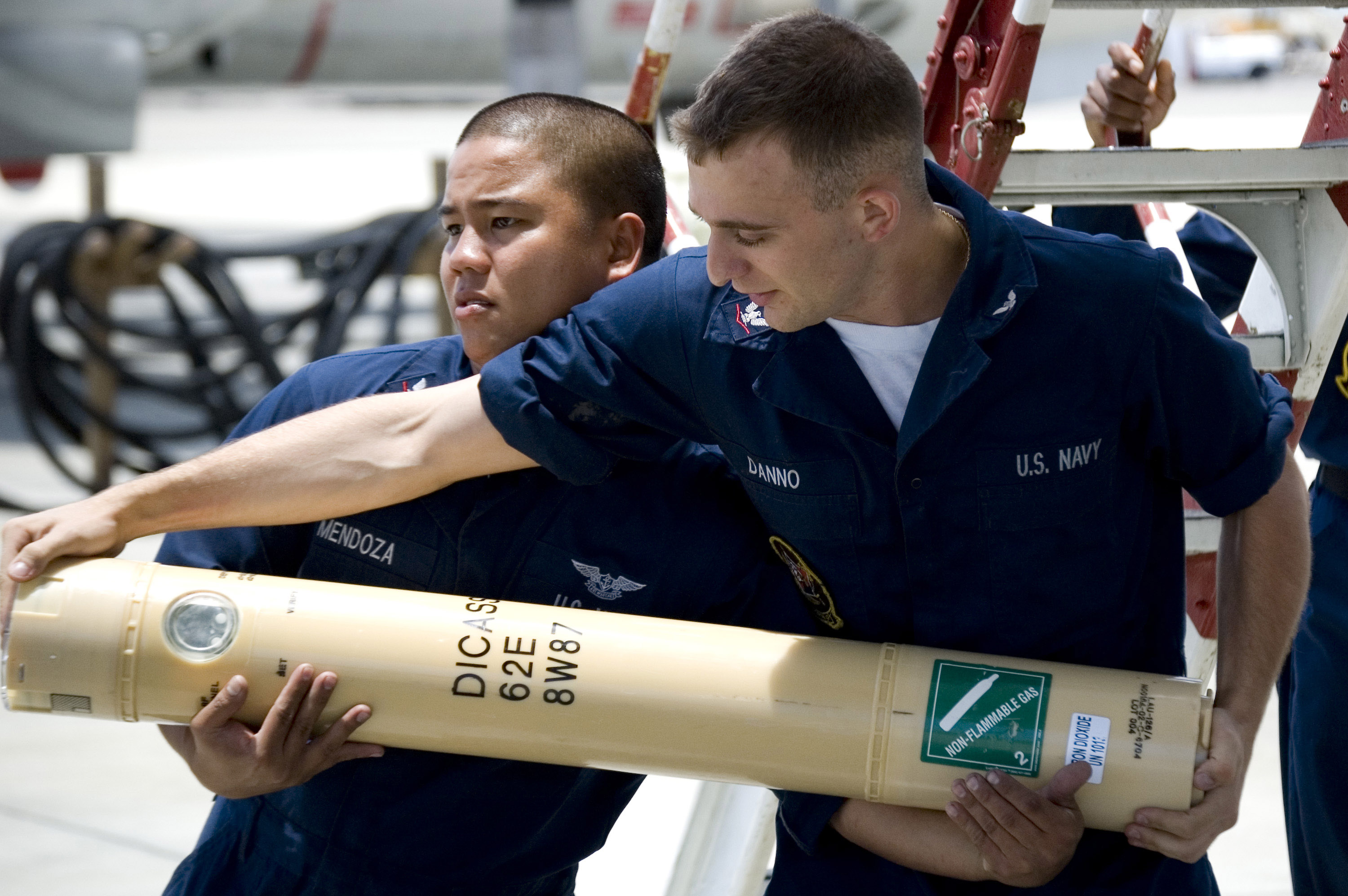 KANEOHE BAY, Hawaii (March 30, 2007) - Aviation Electronics Technician 3rd Class Anthony Danno takes a sonobuoy from Aviation Structural Mechanic 3rd Class Ferdinand Mendoza during a timed sonobuoy loading evolution as part of Patrol Squadron (VP) 47’s competitive training exercise known as the Flight Line Rodeo. Both Sailors are attached to VP-47. Four competing teams from VP-47's maintenance department competed in six events during the Flight Line Rodeo for a custom designed belt buckle and bragging rights. U.S. Navy photo by Mass Communication Specialist 2nd Class Ian W. Anderson (RELEASED)